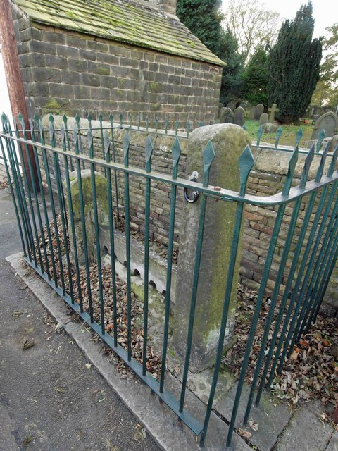 Bolsterstone village stocks